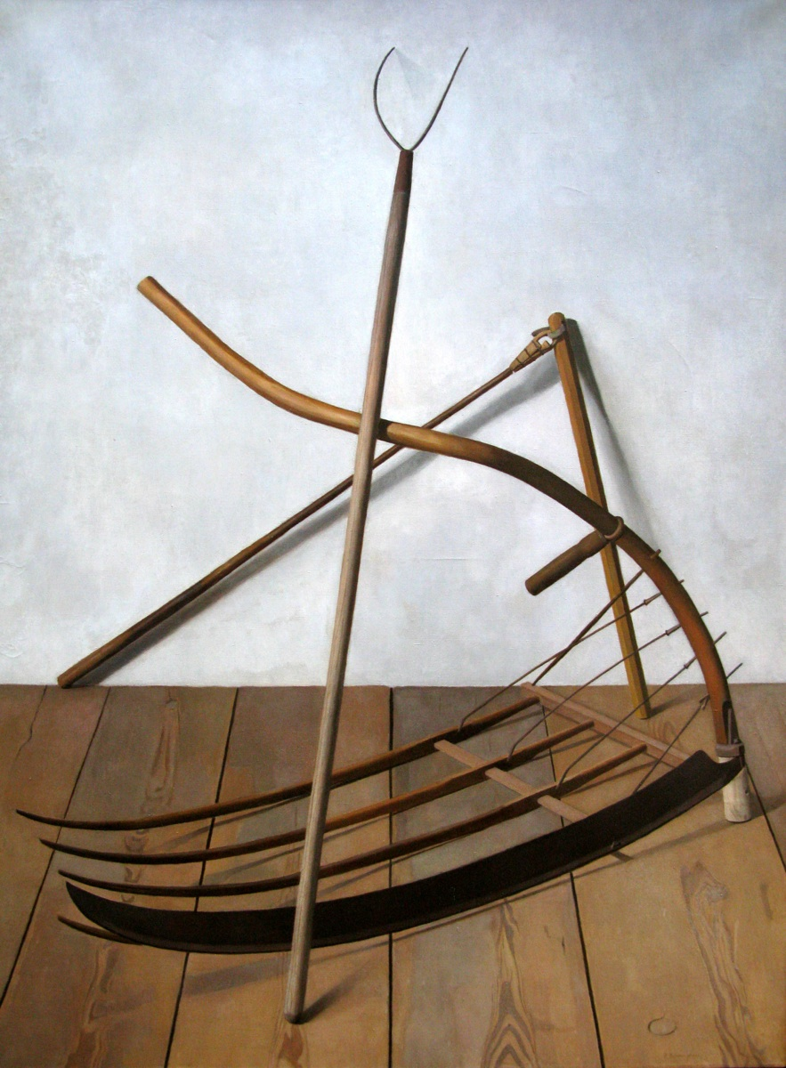 Harvest Tools-60x44-1973 (Property J.M